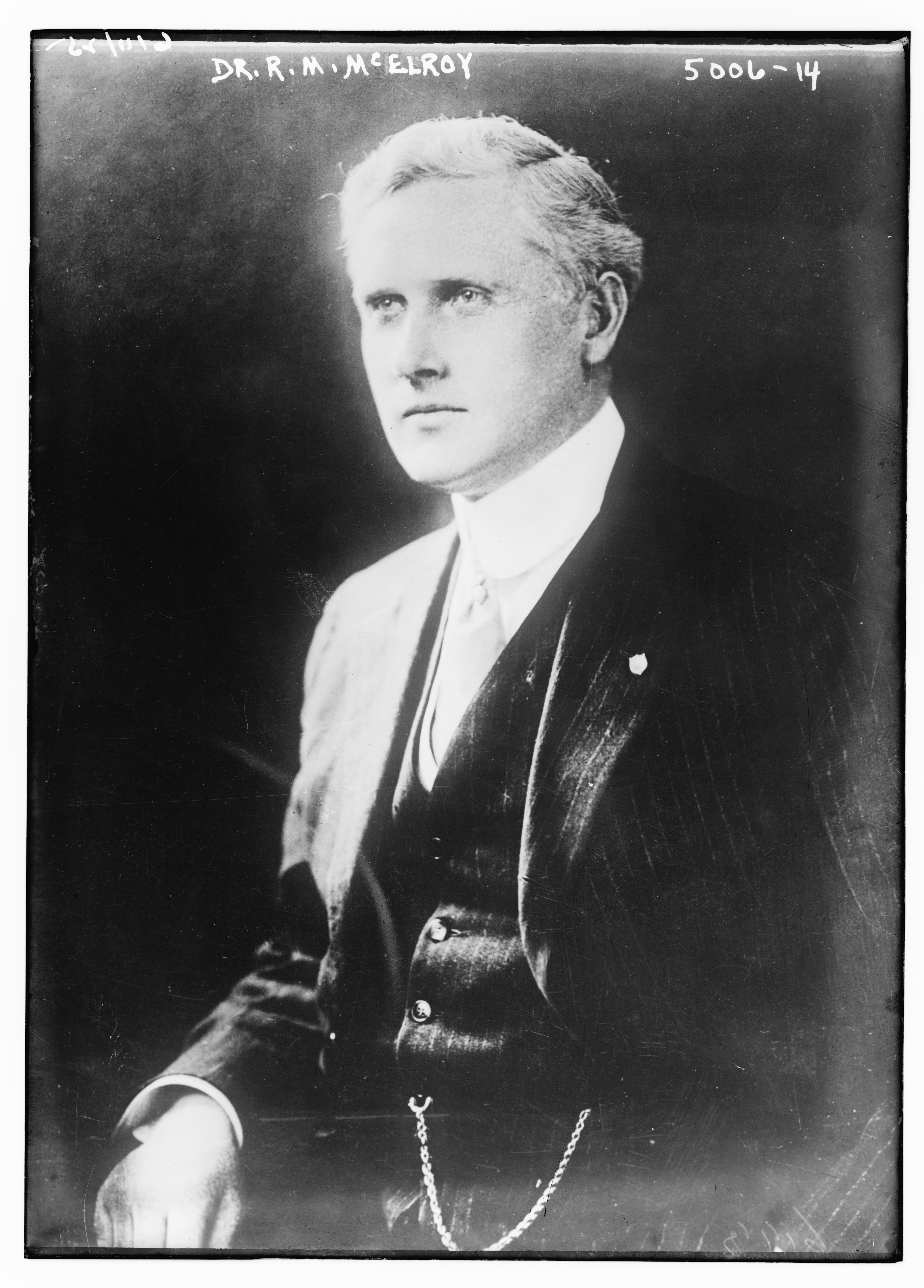 Robert McNutt McElroy in 1919